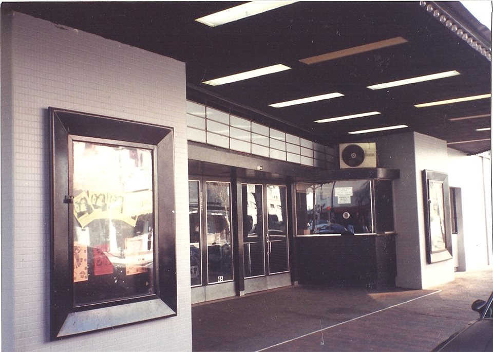 The box office of of the Beacham Theatre in March 1991. The box office was built in 1954 and removed in the mid-1990s.